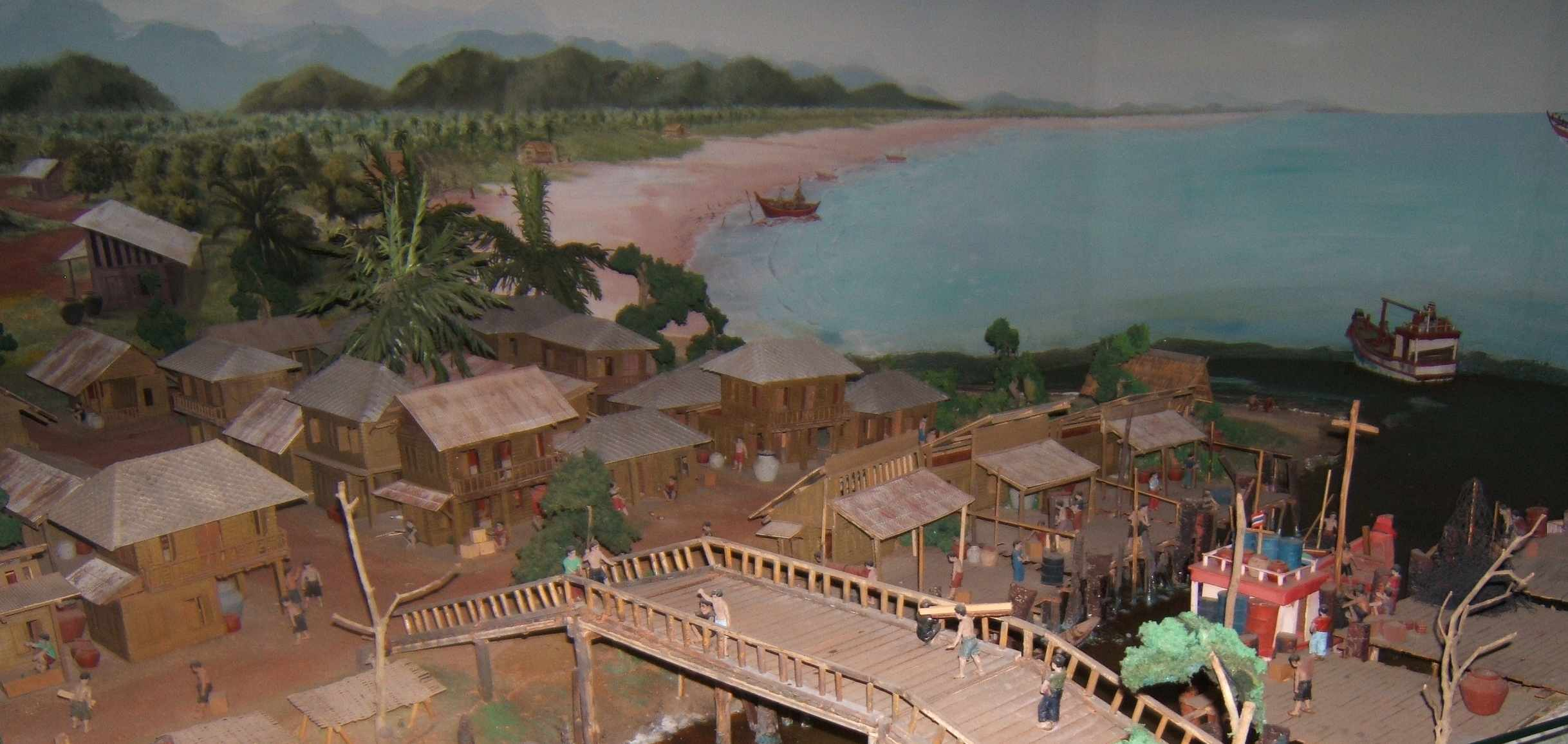 Model of the town of Chumphon at the beginning of the 20th century